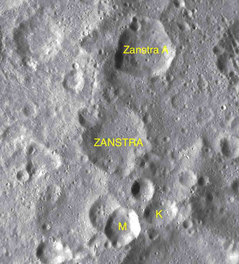 Part of the chart LAC-65 used for the presentation